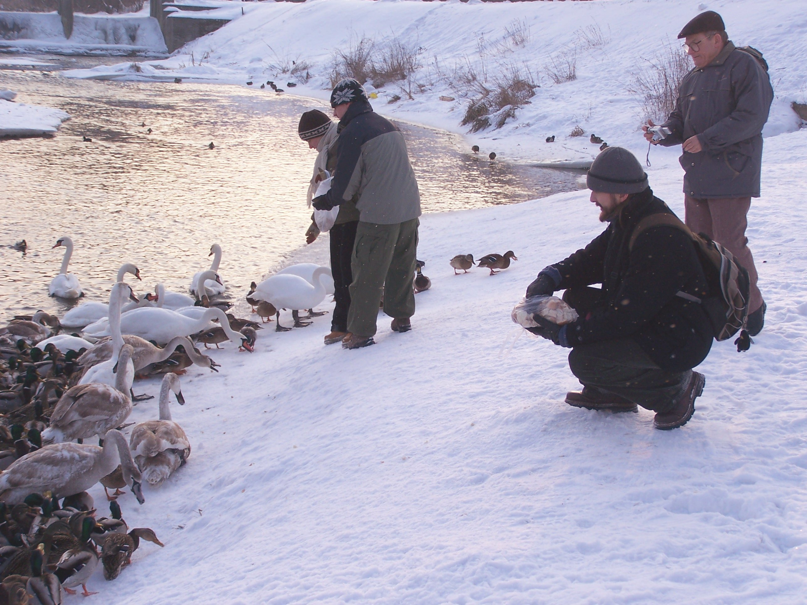 People feeding swans and ducks on Jeziorka river bank in Konstancin-Jeziorna, Poland. Ejdzej is the one with rucksack and large bag of bread.